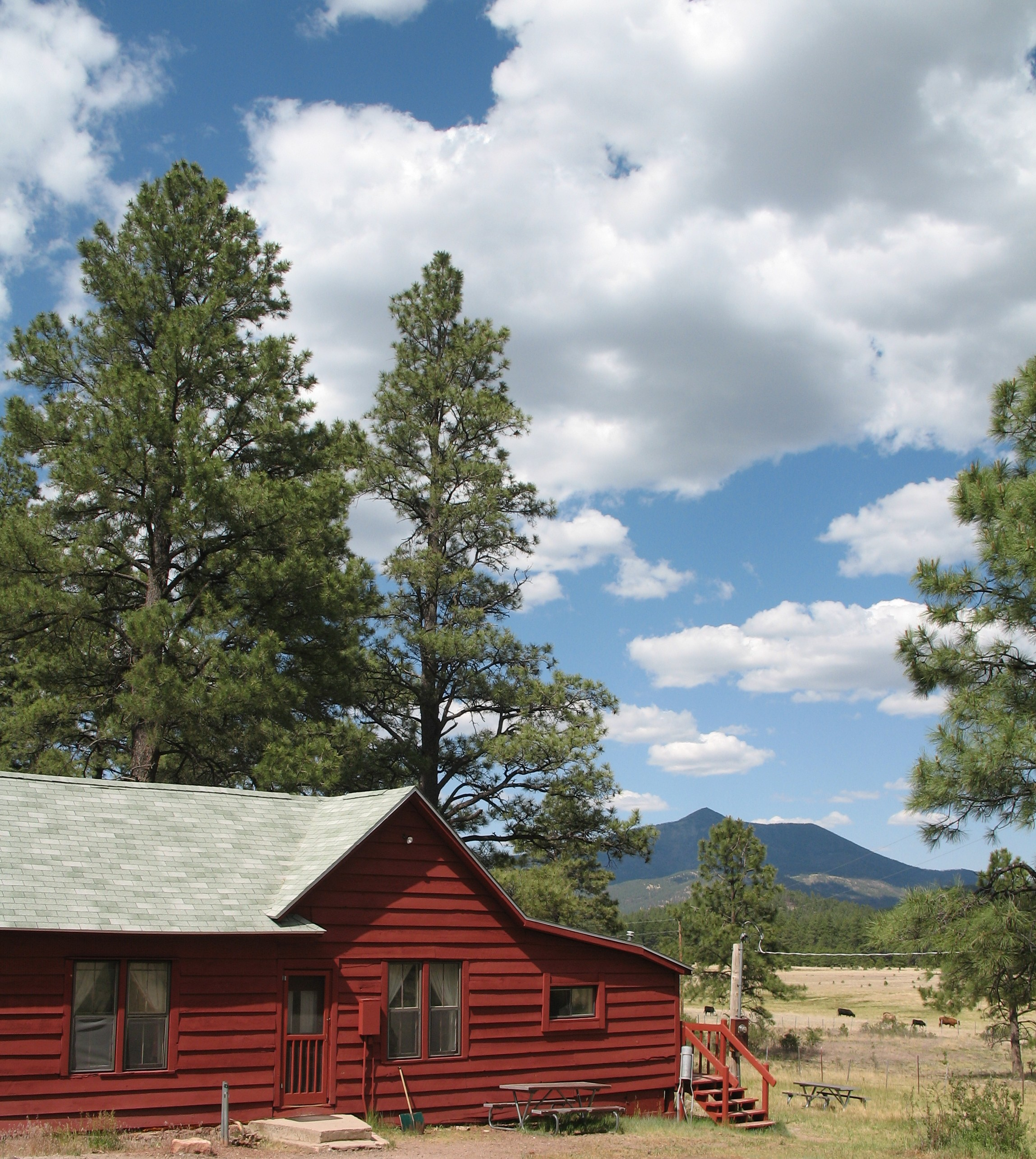 Spring Valley Cabin on the Williams Ranger District. Please give credit to: U.S. Forest Service, Southwestern Region, Kaibab National Forest.